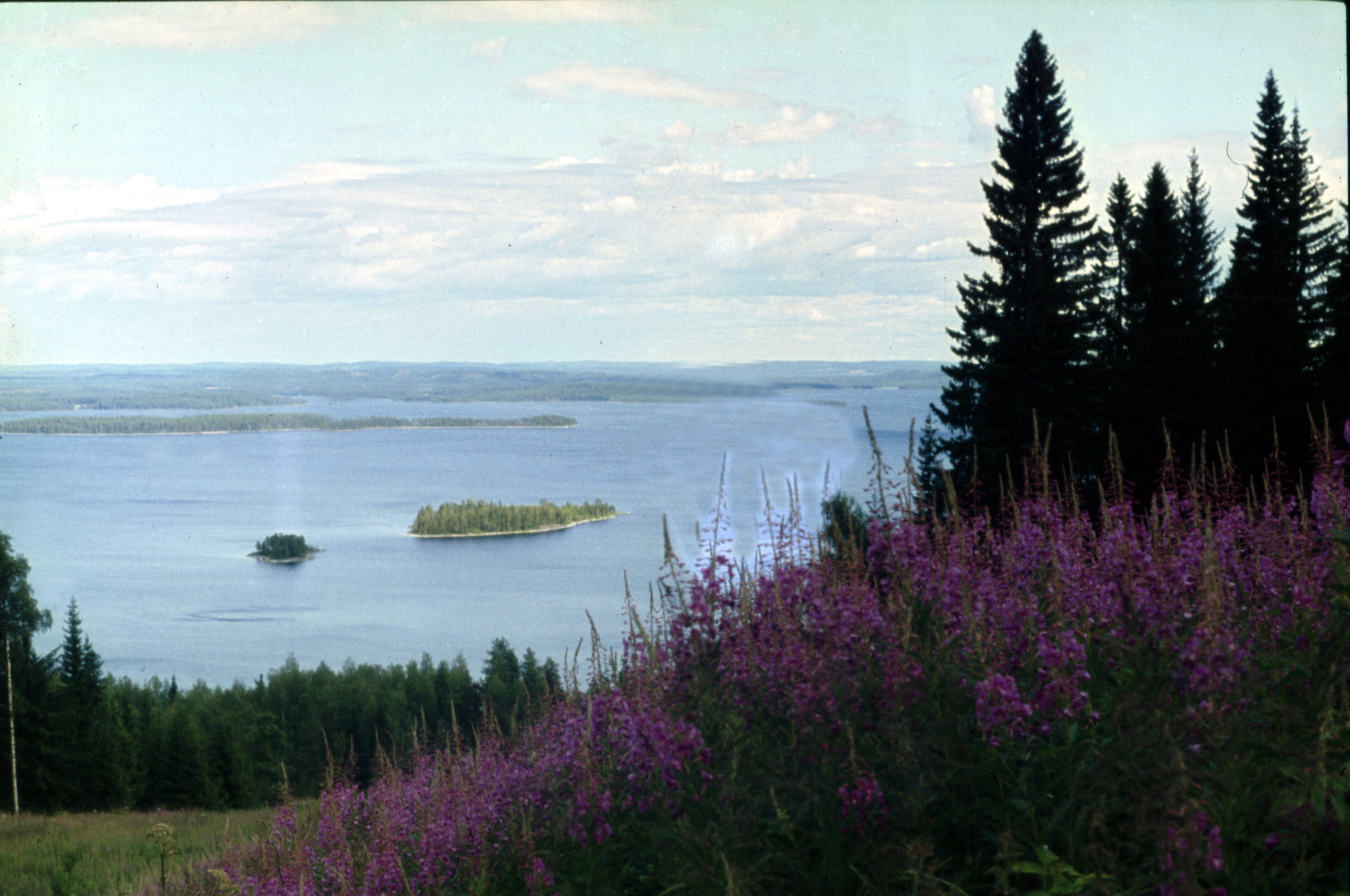 Koli in Finland 1975